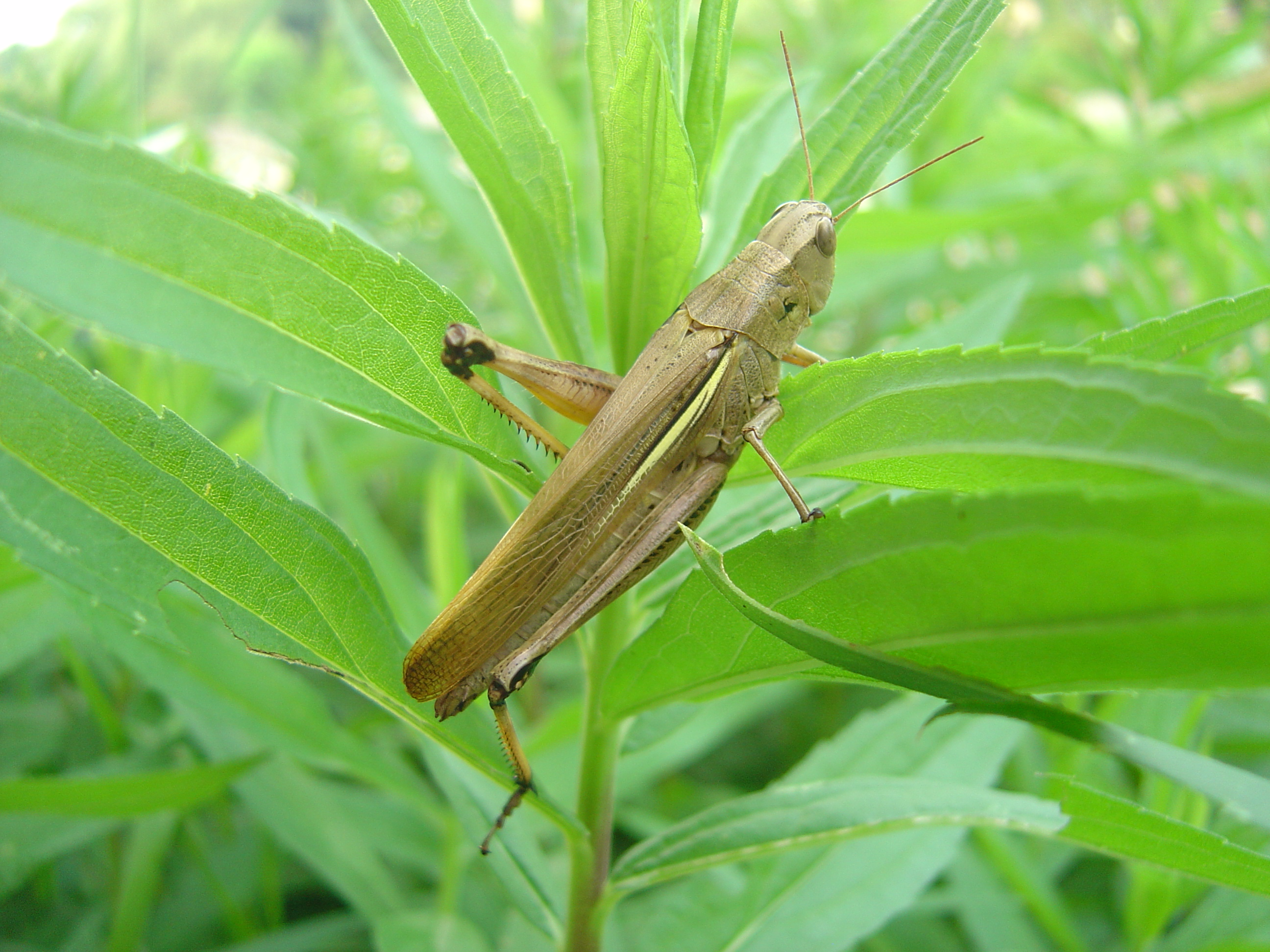 A female of Stethophyma magister.